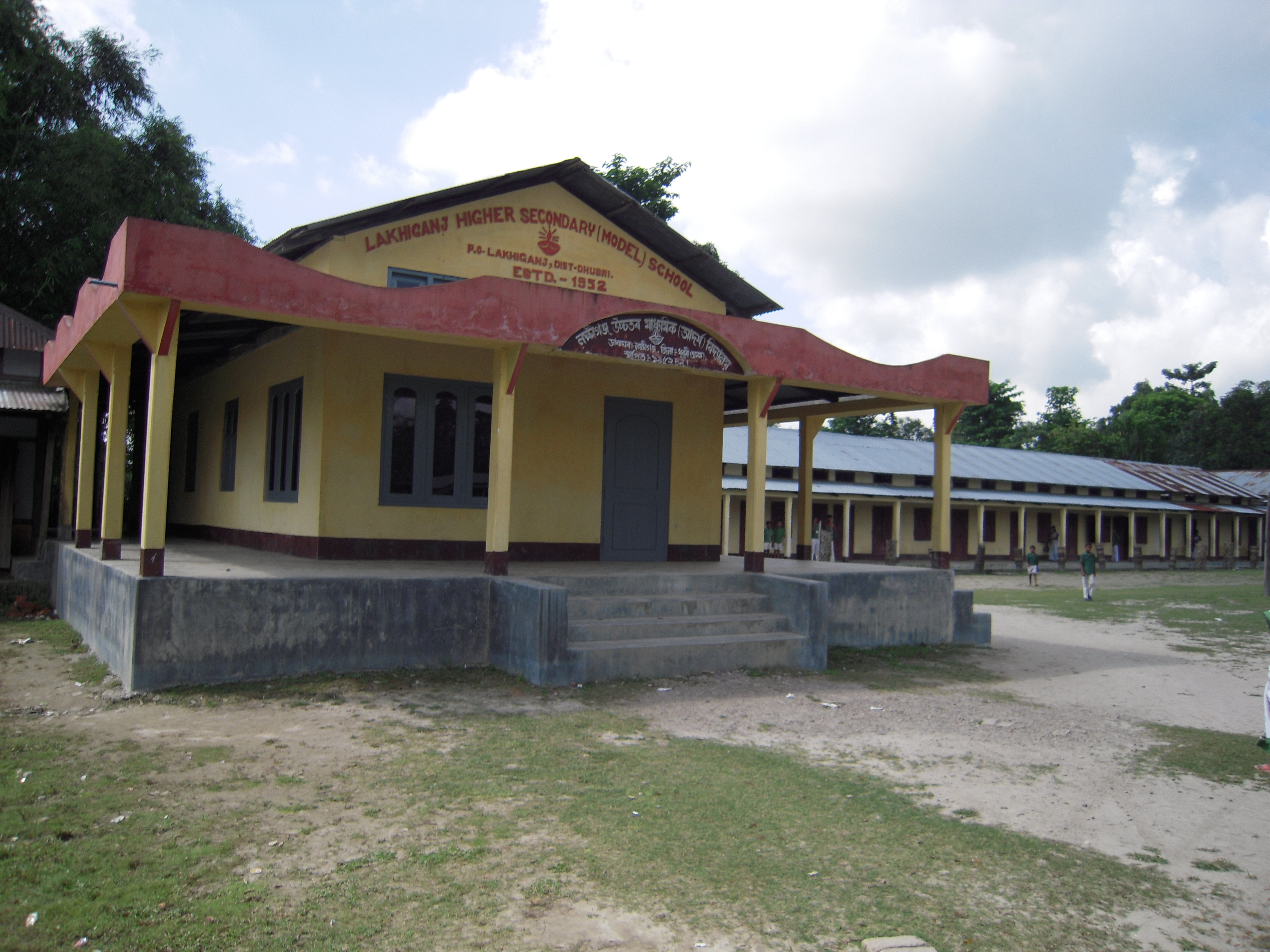 Lakhiganj HS School, Lakhiganj